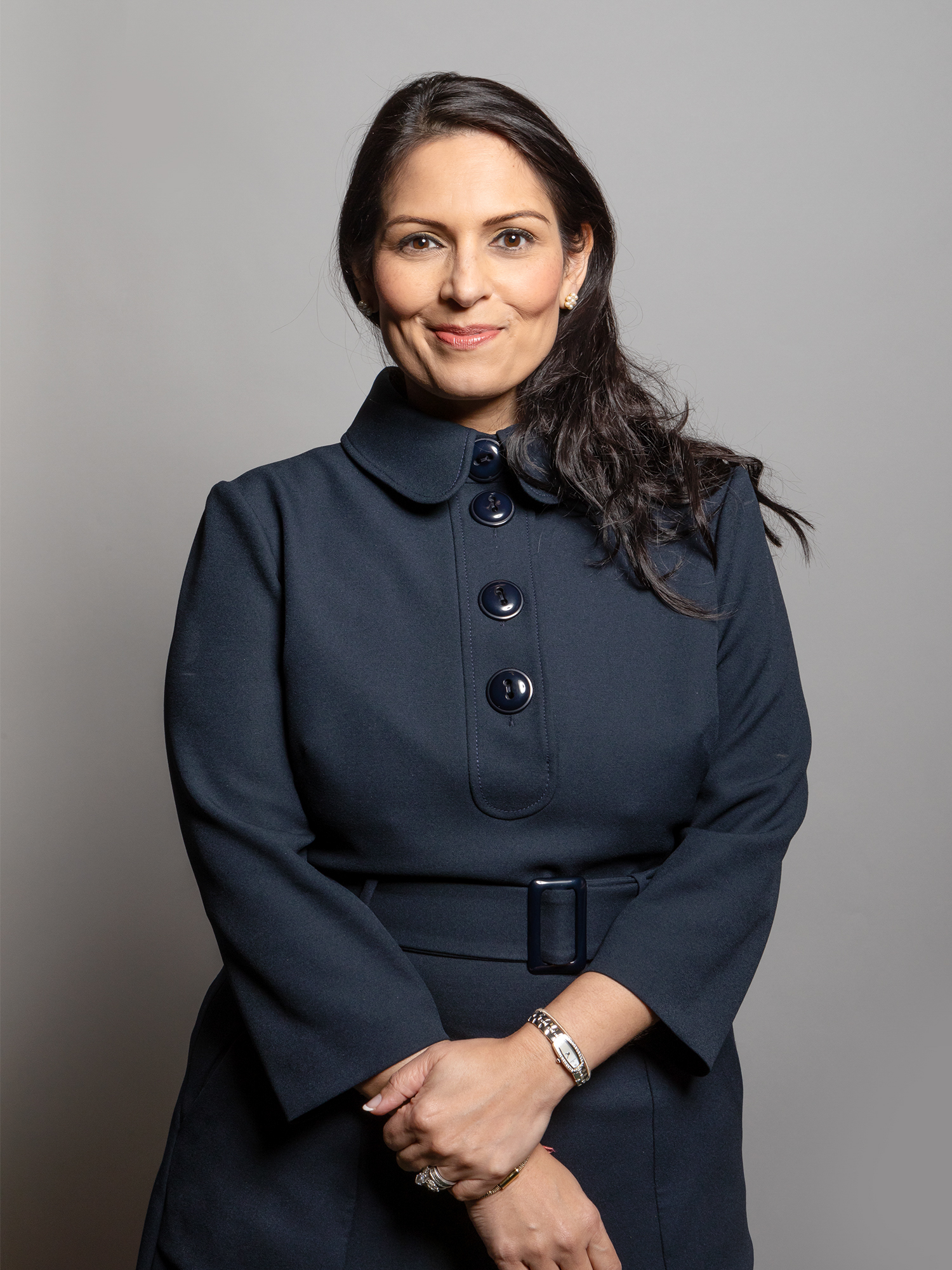 Official portrait of Rt Hon Priti Patel MP Full sized portrait of Priti Patel